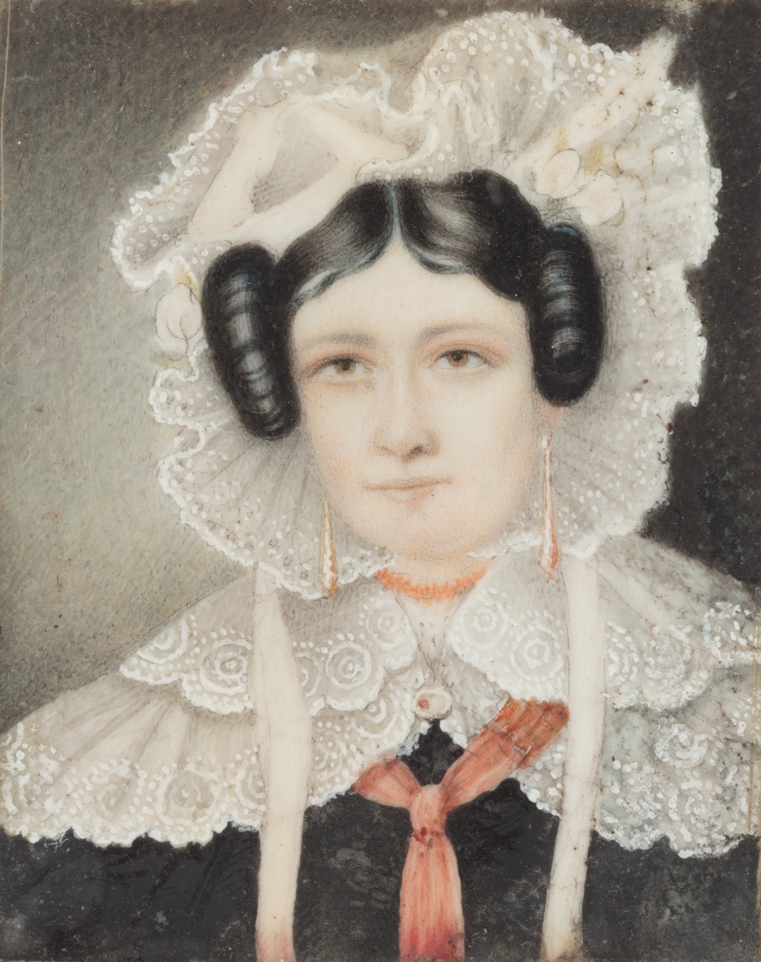 Mary Ann Turner, Sydney, framed miniature : watercolour ; 5.7 x 4.5 cm; 10.5 x 9.5 cm (framed).